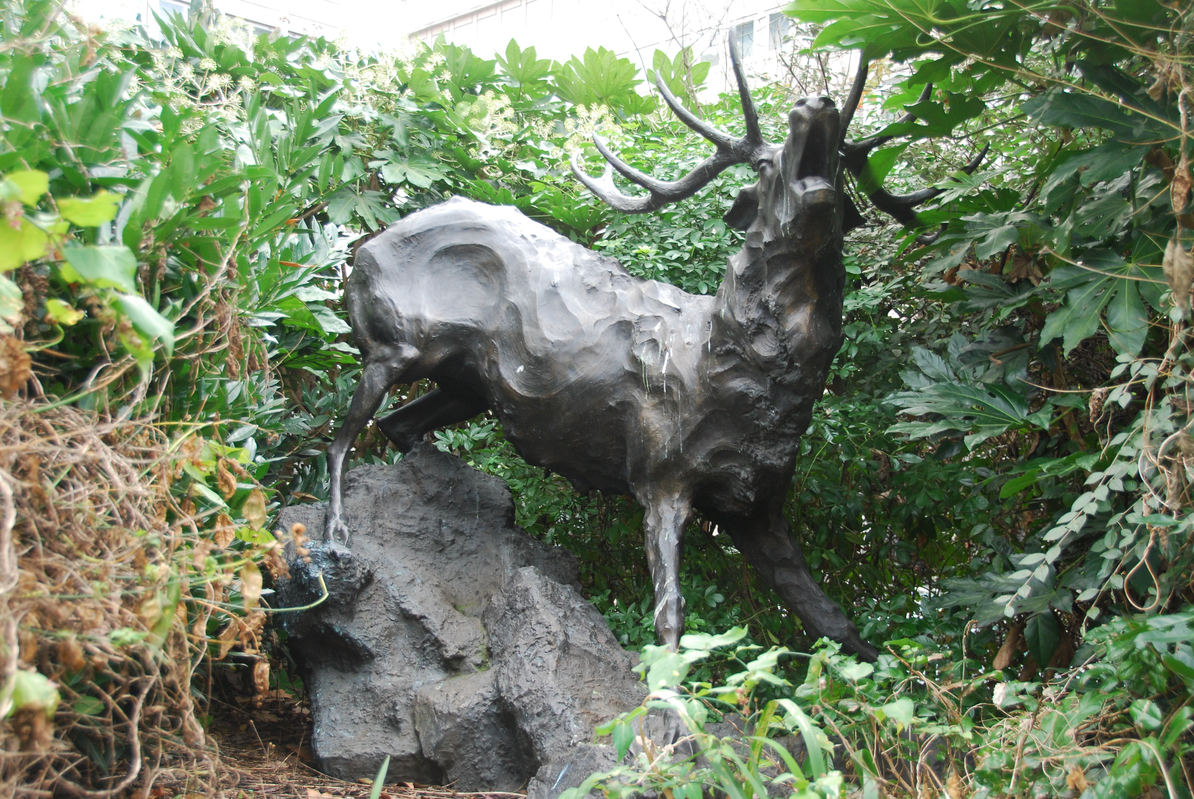 Sculpture by Marcus Cornish in St James's Square, London.